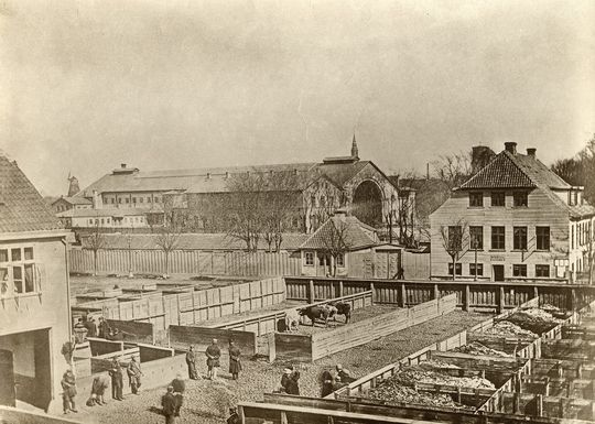 Trommesalen - former cattle market - in Copenhagen, Denmark